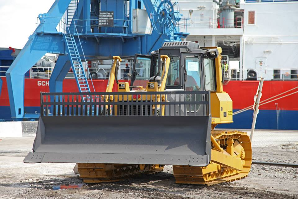 Poti Seaport, Georgia — Receiving of New "YTO" Bulldozers (model YD 160) for Solid Waste Management